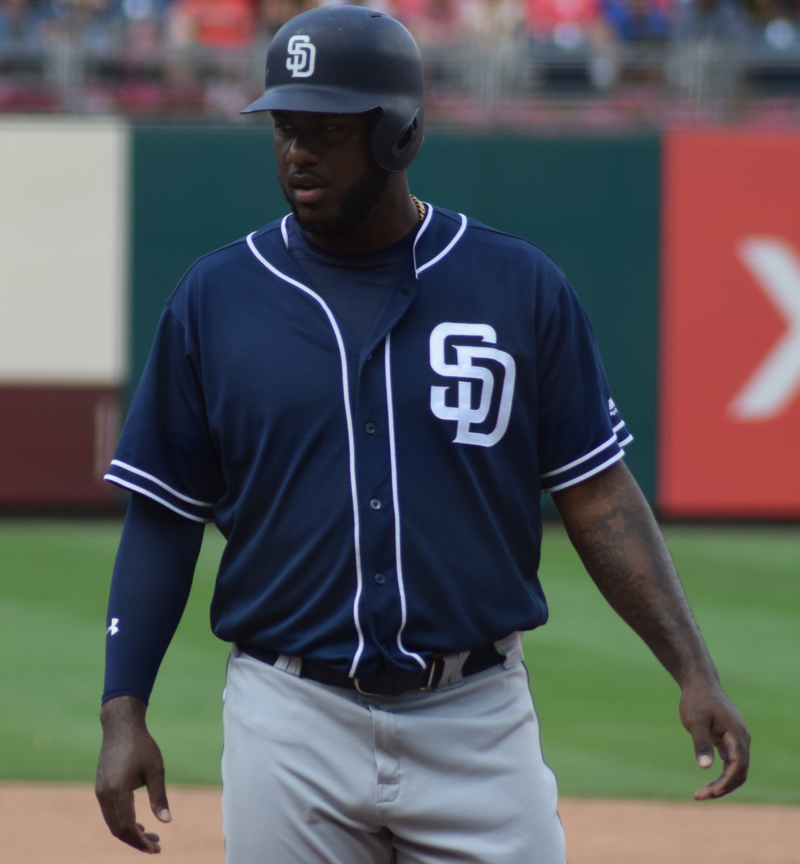 Franmil Reyes with the San Diego Padres at Citizens Bank Park in Philadelphia in 2018